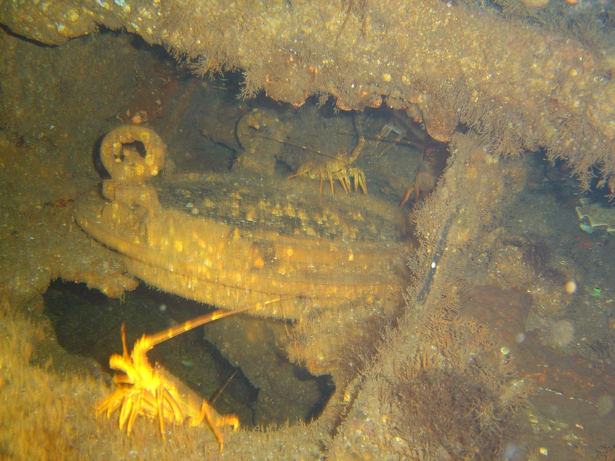 Porthole at wreck of the SS Lusitania at Bellows Rock, Cape Point, Western Cape.